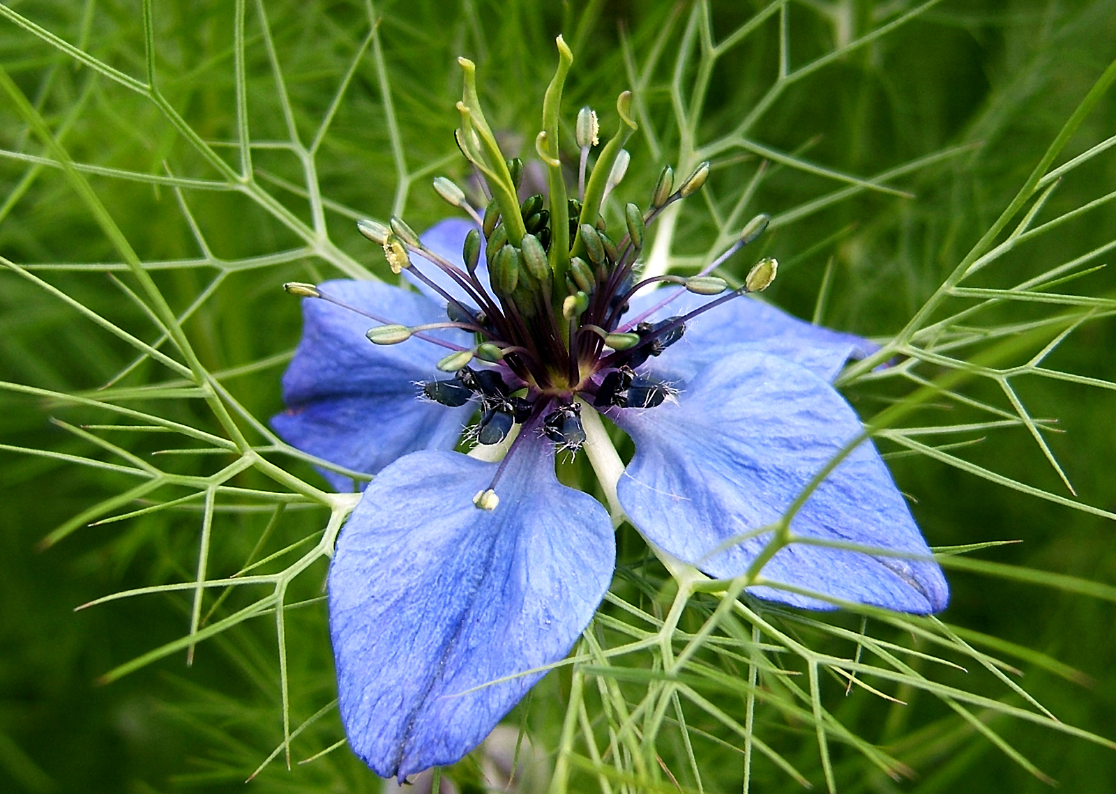 Love-in-a-mist, devil in the bush